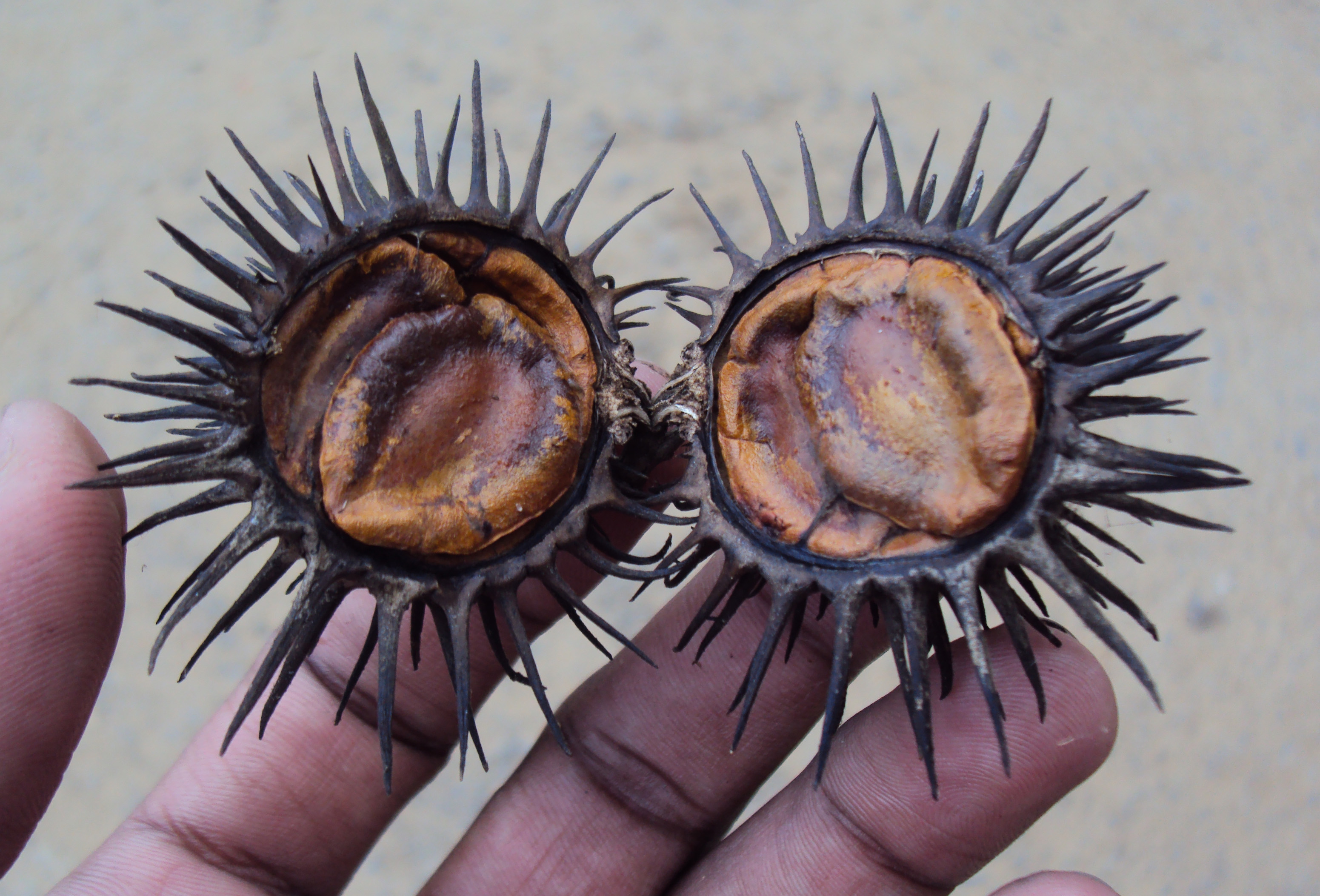 Allamanda cathartica